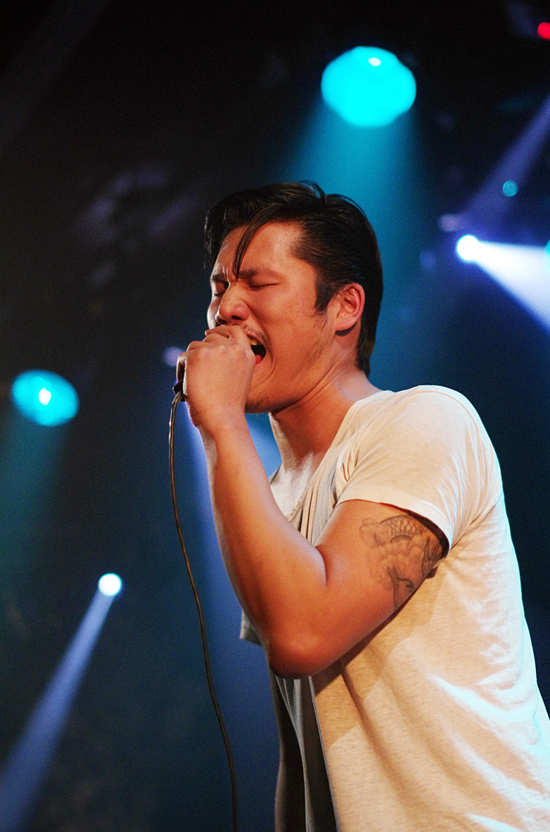 Alex Zhang Hungtai (Dirty Beach) Festival les Nuits de l'Alligator 2012 La Maroquinerie Paris 2012